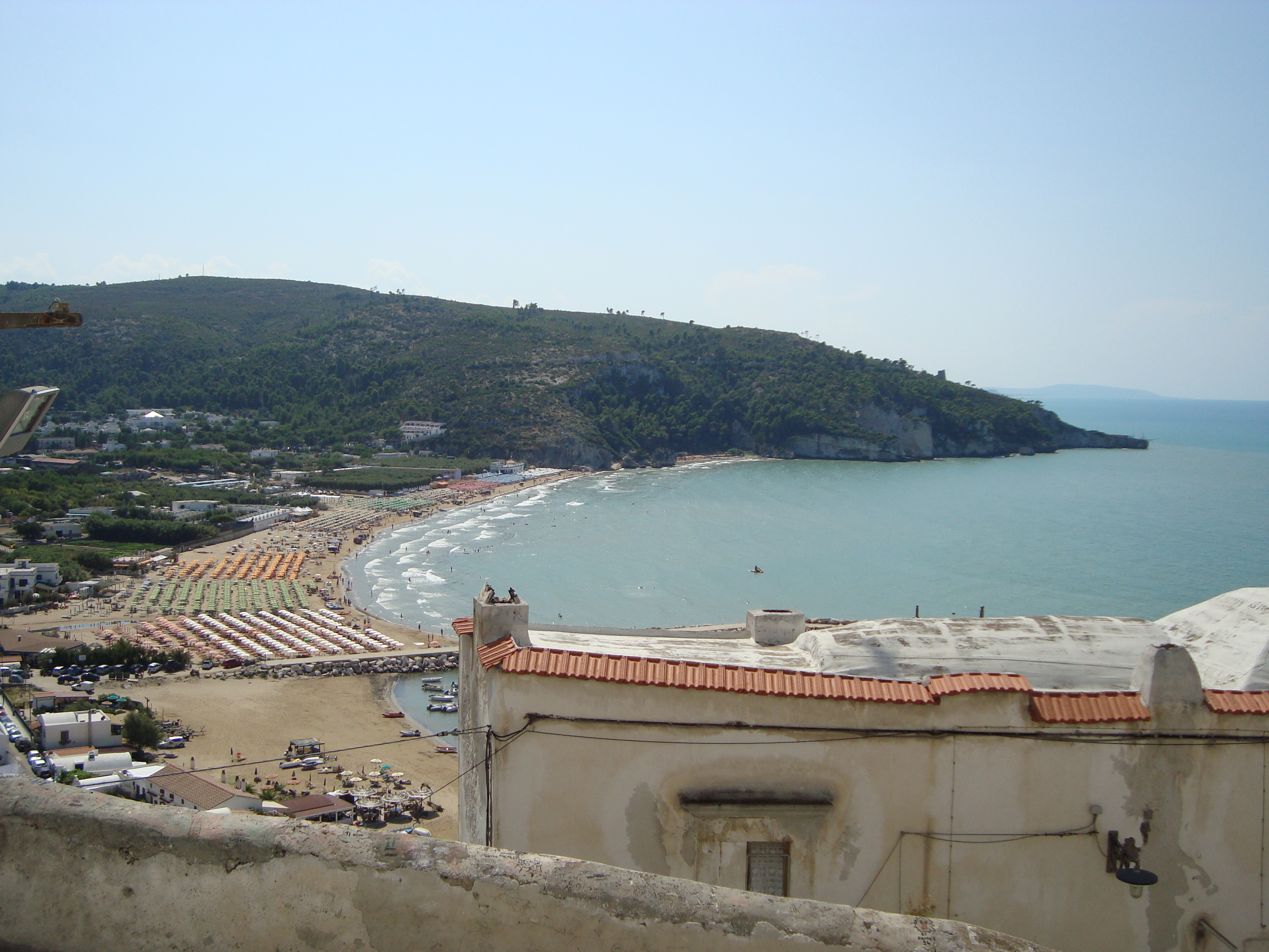 The beach in Peschici